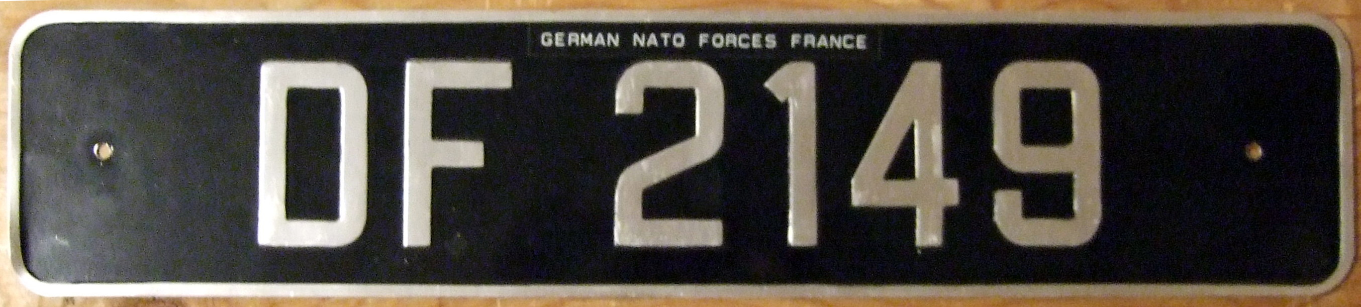 1970's German NATO forces in France